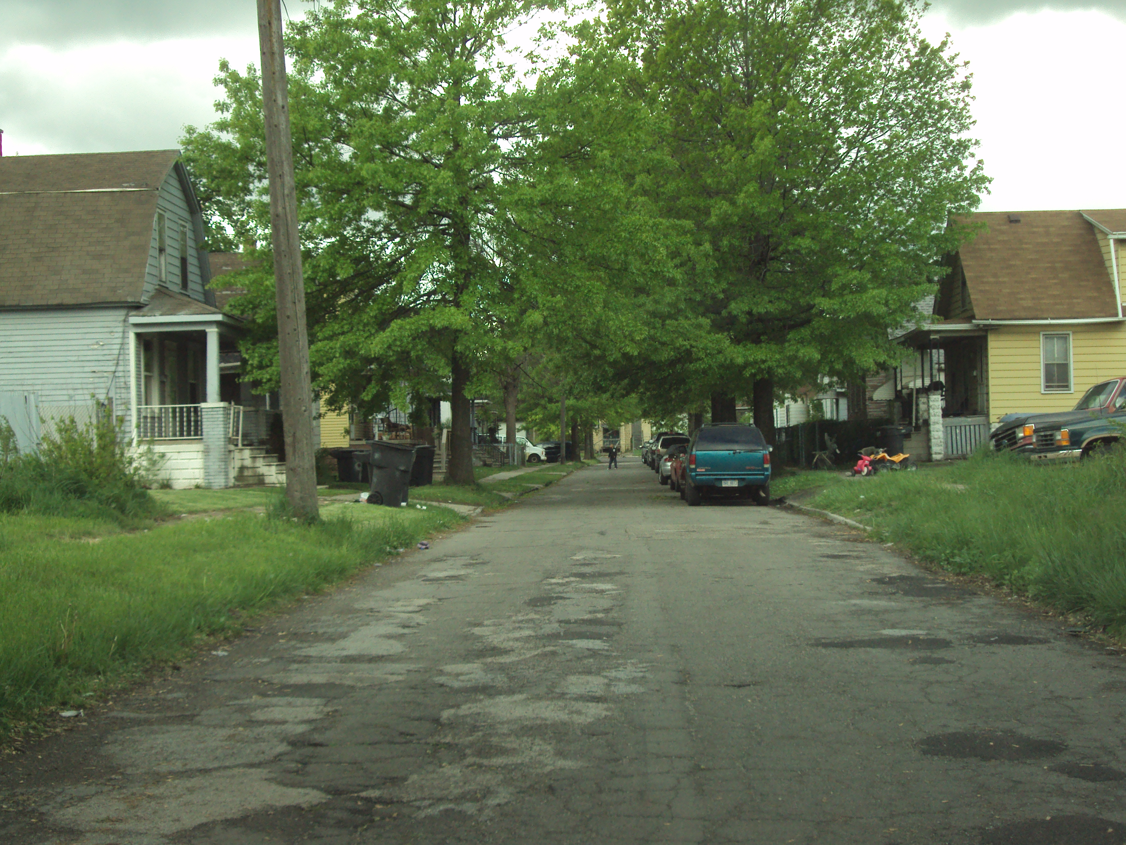 Delray, Detroit, Michigan